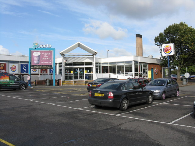 Frankley Services (M5 northbound side)